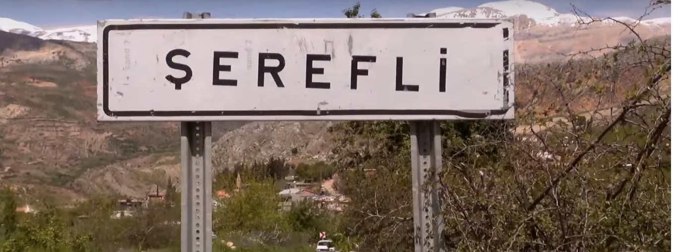 Serefli village enterance